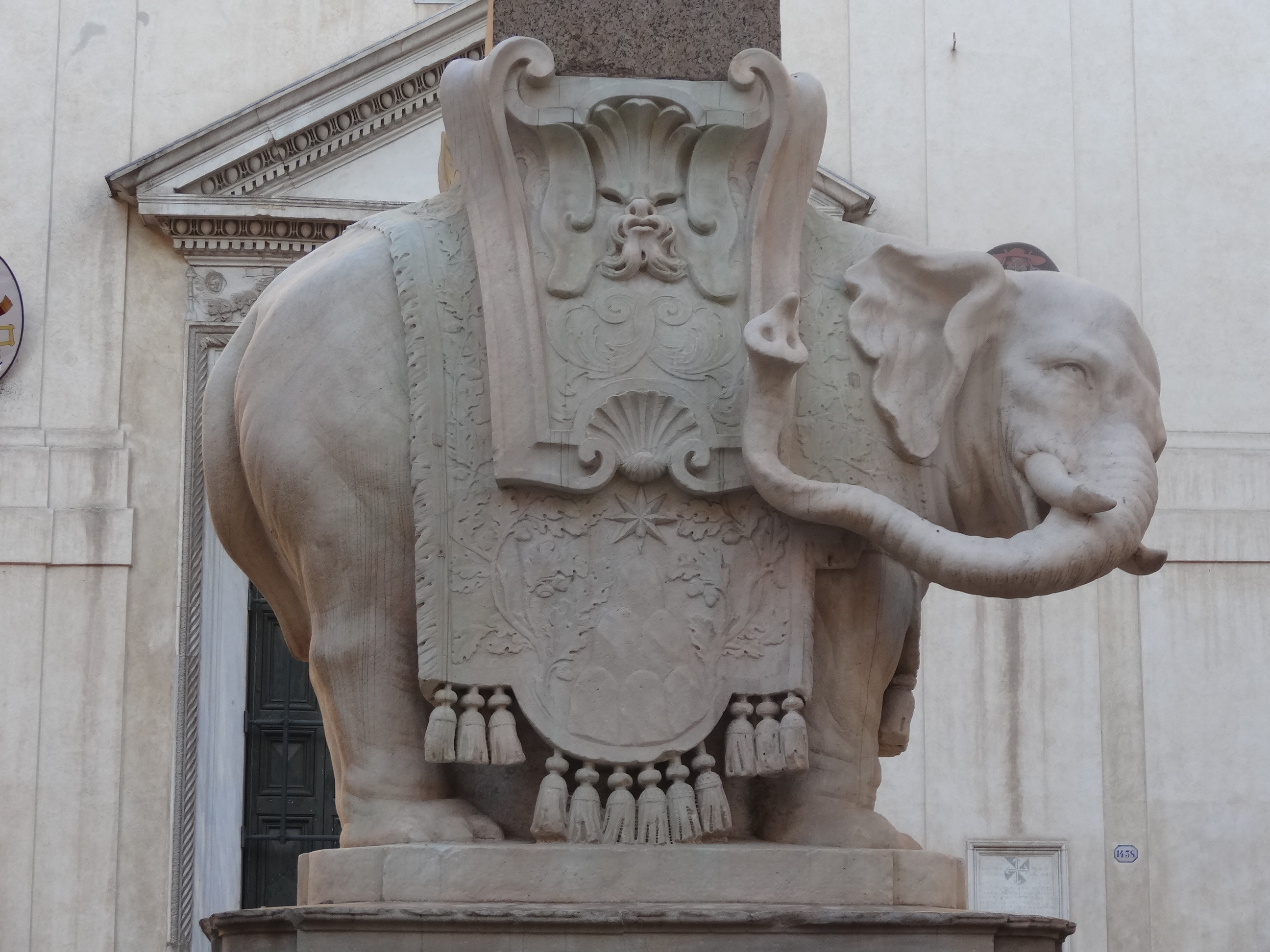 Pulcino della Minerva